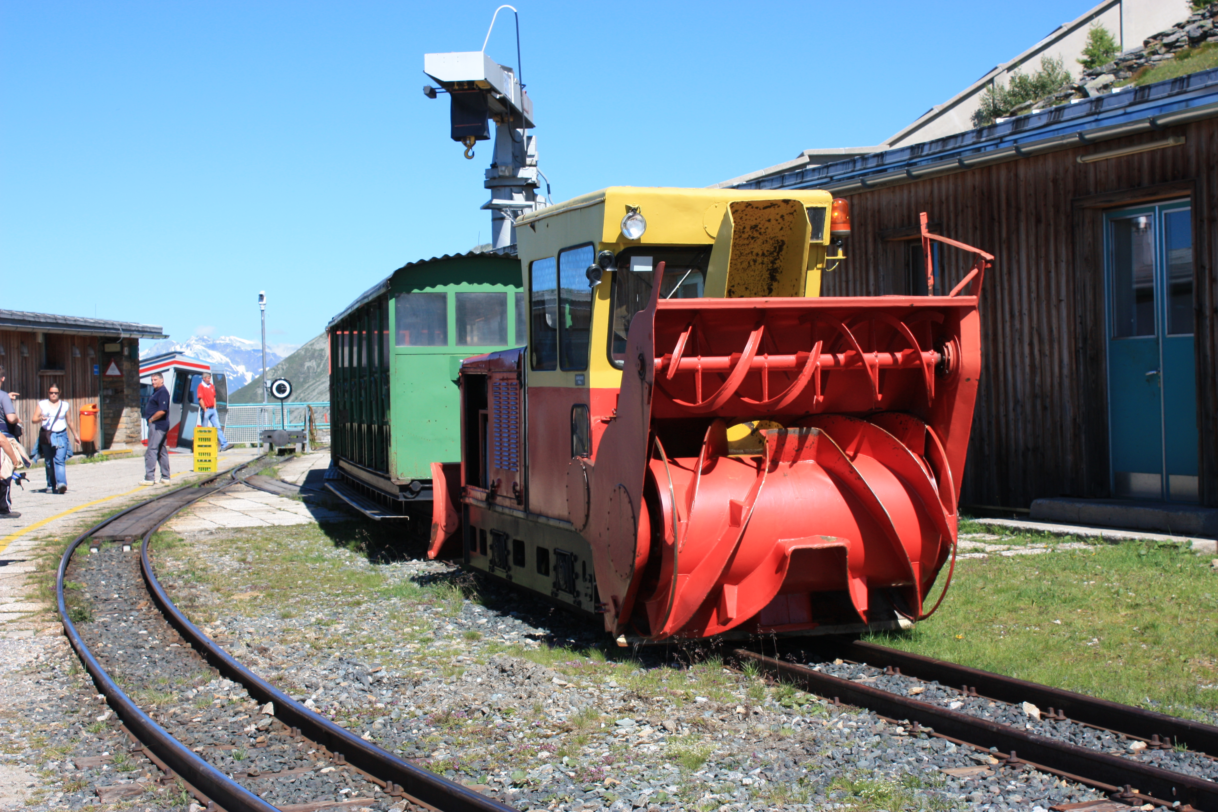 Reißeck-Höhenbahn: Day-tripper-train (out of service) with Snow blower Community:Reißeck